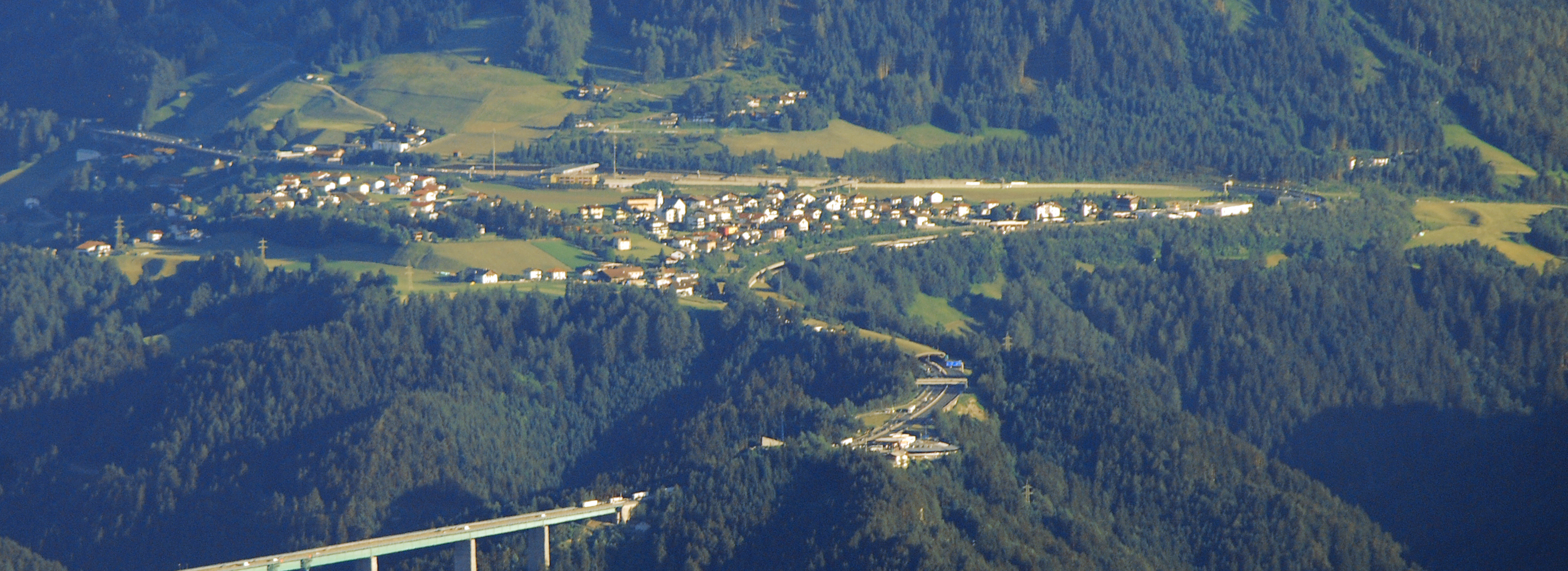 Schönberg im Stubaital from North